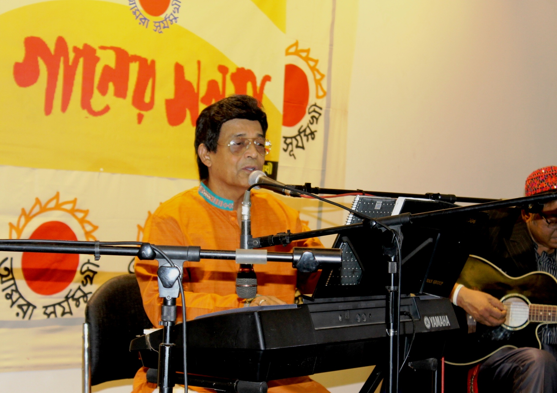 Famous Bangladesh singer Kaderi Quibria singing Tagore song, Dhaka, 2017